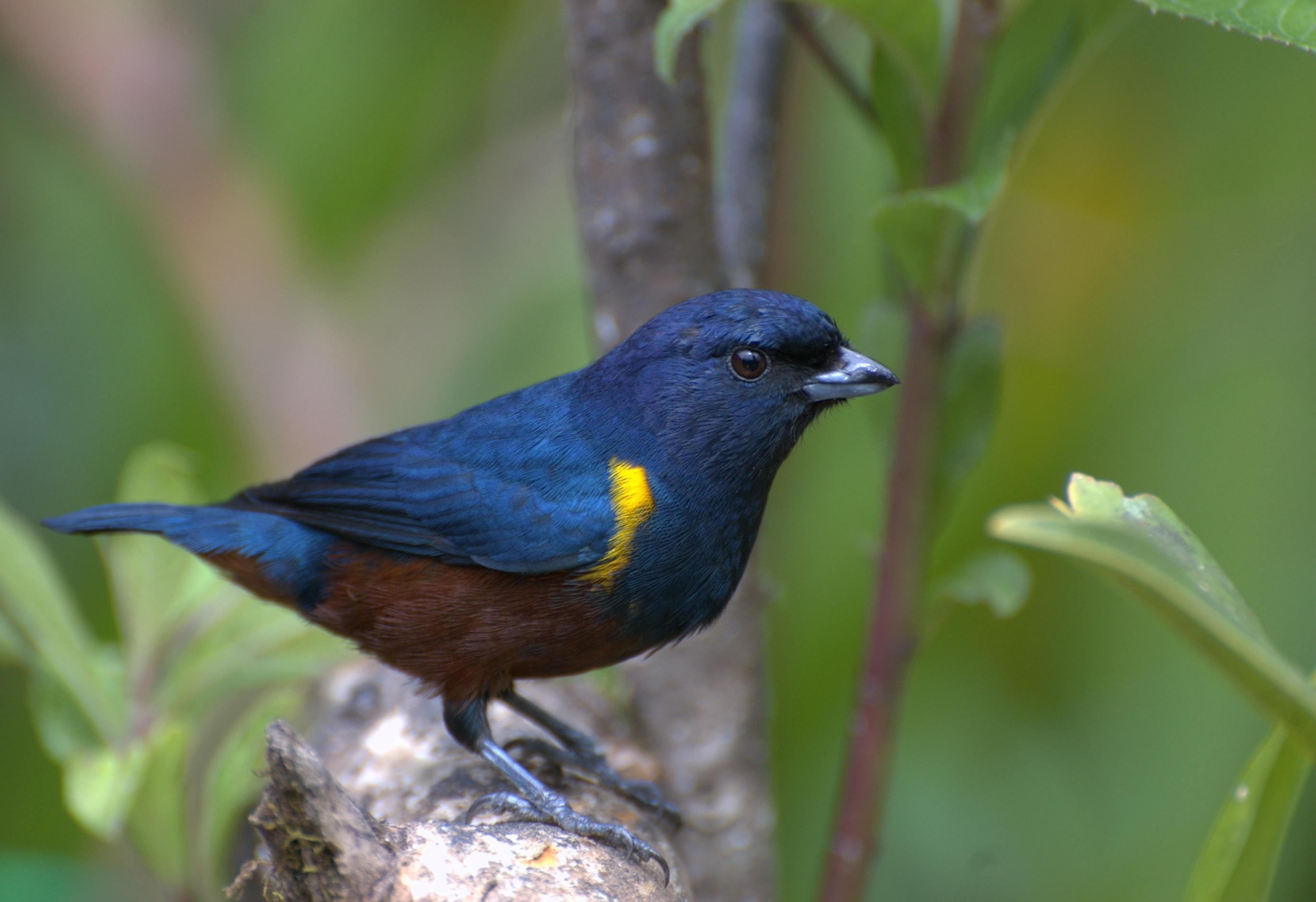 A (Euphonia pectoralis), male